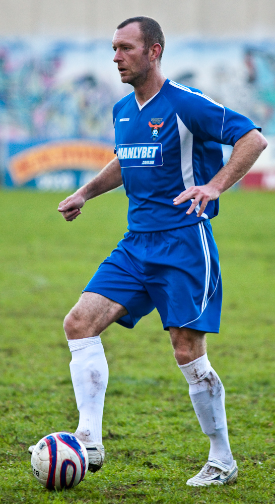 Spencer Prior playing for Manly United FC against Sydney Tigers in the 2009 NSW Premier League.